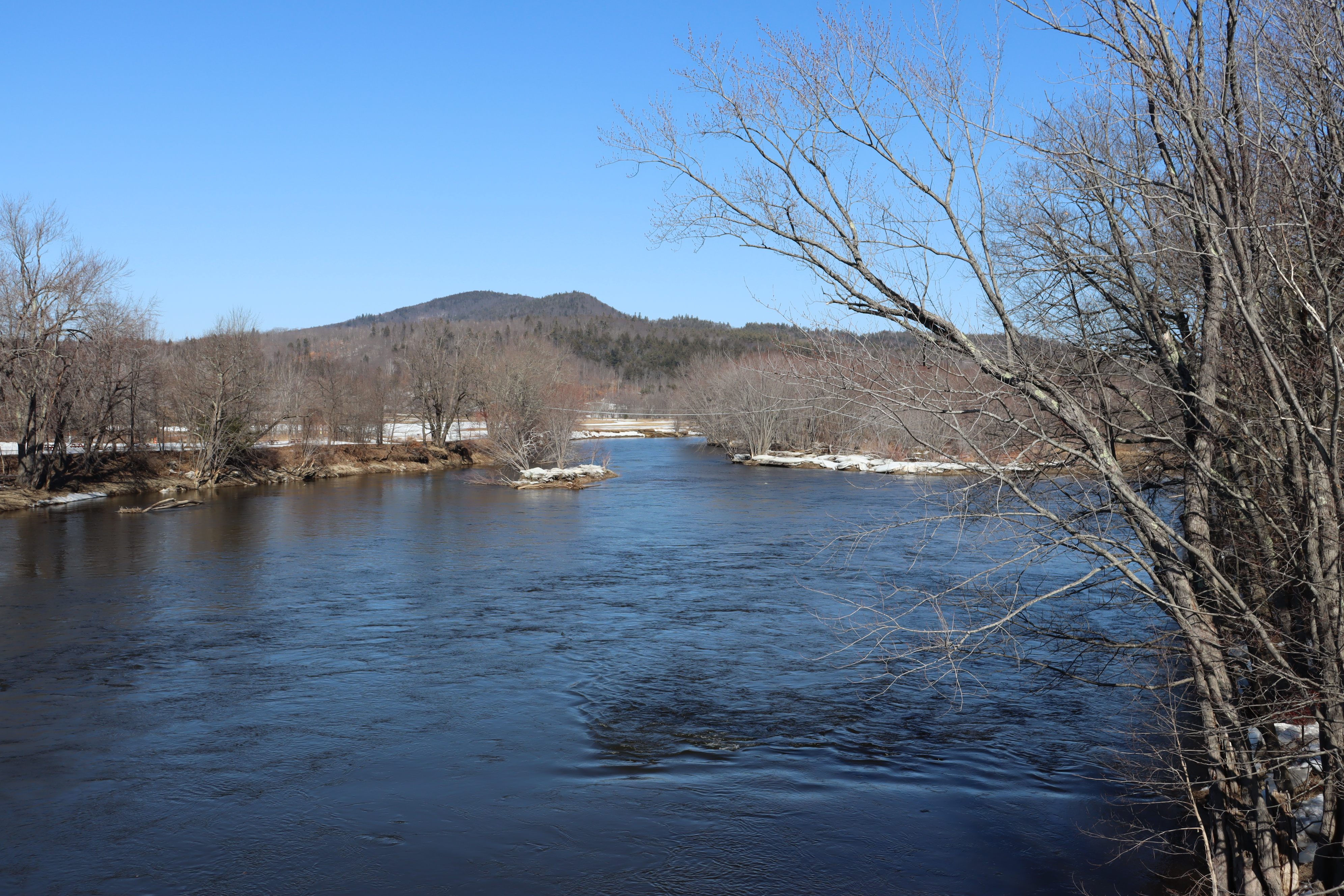 Looking south from a highway bridge over the Androscoggin River, late March, in the western Maine town of Bethel.